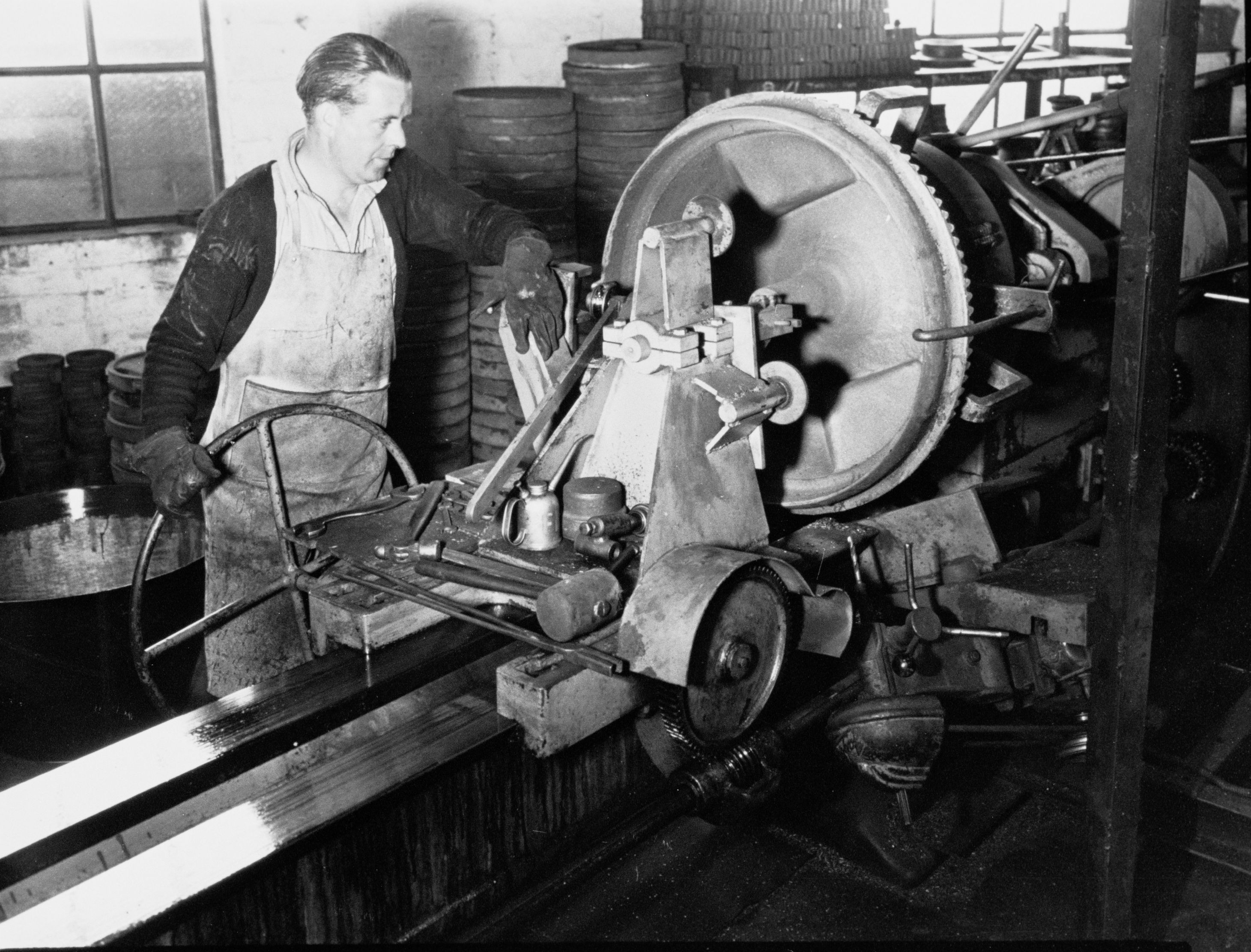 A factory worker at Lightburn & Co. The company's products included brick moulds, "Lightning" brand concrete mixers, wheelbarrows, trailers, wheels, hydraulic jacks, washing machines and spin driers. Lightburn began marketing domestic washing machines around 1949. The company had a deserved reputation for unsophisticated, well-made, rugged reliable products, but a later venture, the Zeta automobile, manufactured from 1963 to 1965, was an unmitigated failure.